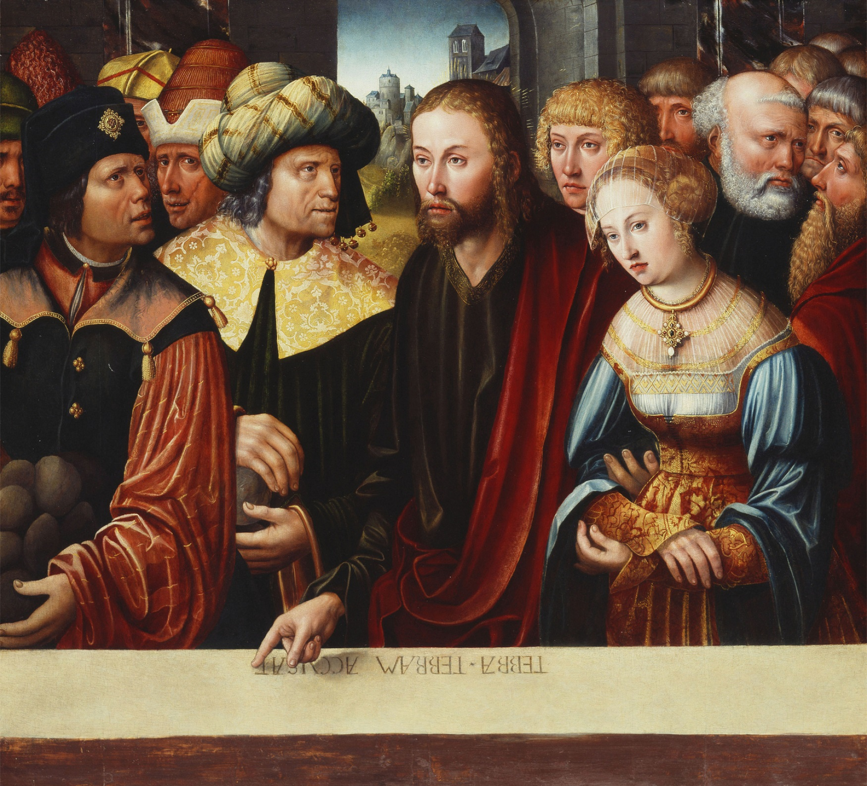 Jesus and the adulteress